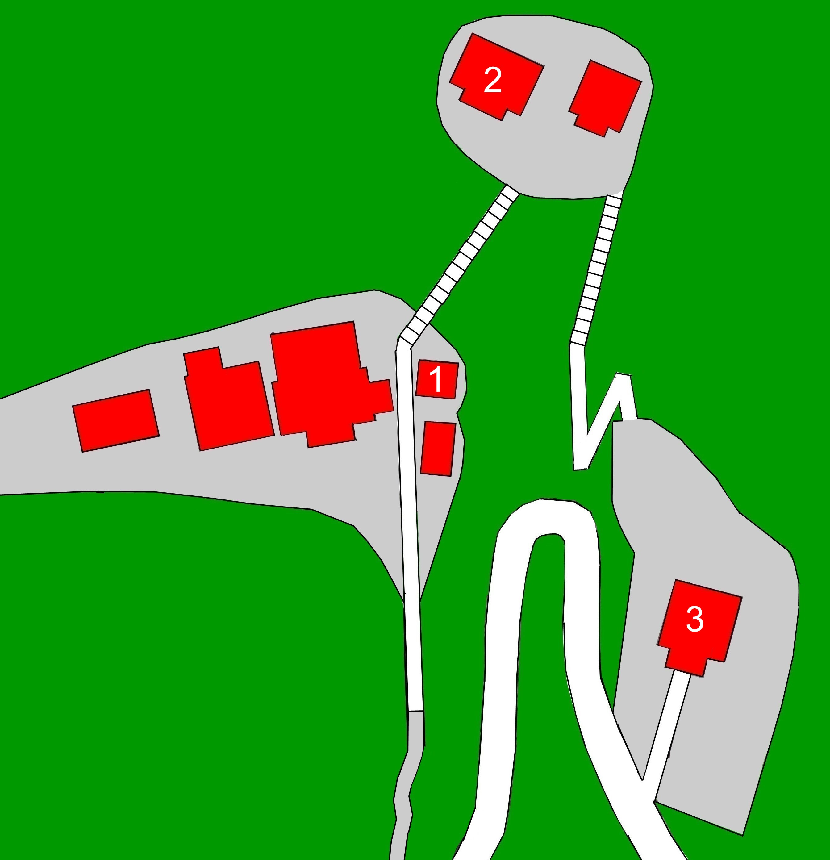 Layout of Kōnomine-ji temple, Japan